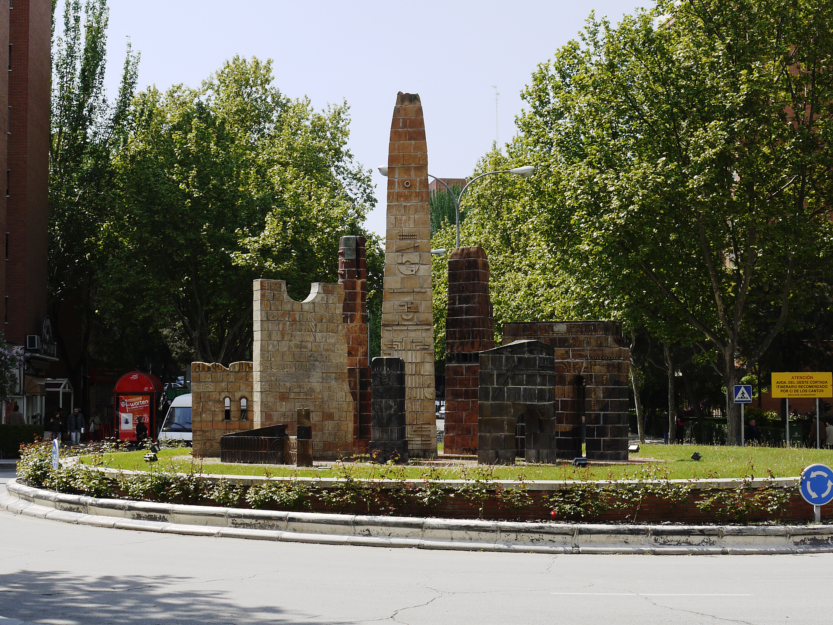 Round about, junction Calle Cisneros / Calle de Cáceres. Alcorcón, Spain